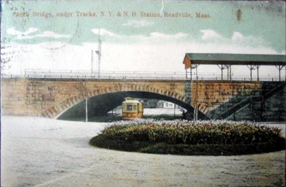 1907 postcard showing a Old Colony Street Railway (later the Bay State Street Railway) trolley on Hyde Park Avenue at Readville station on the NY&NE